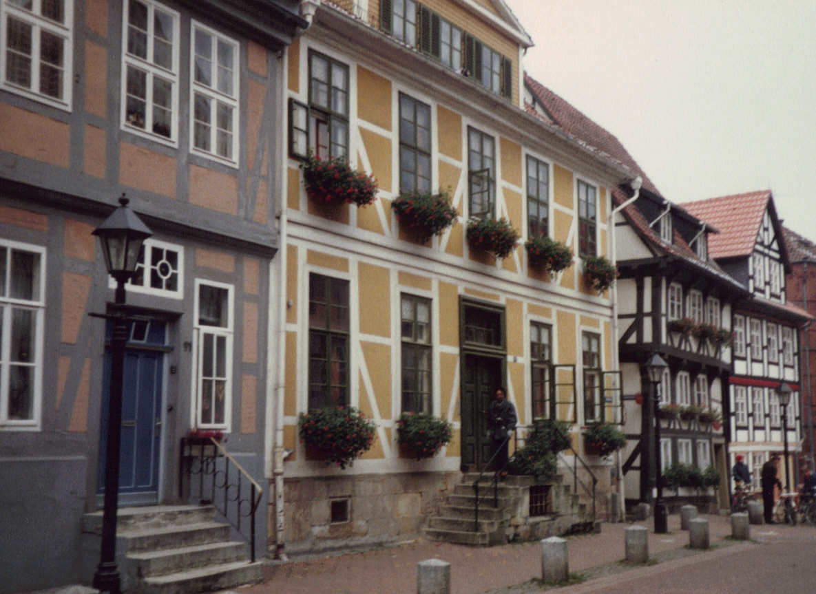 Hildesheim: Half-timbered houses (17th and 18th century) in the district Neustadt